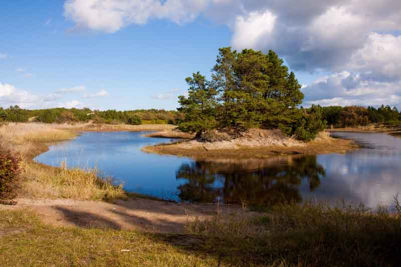 Bunken Klitplantage, plantation in Vendsyssel in the northern part of Denmark